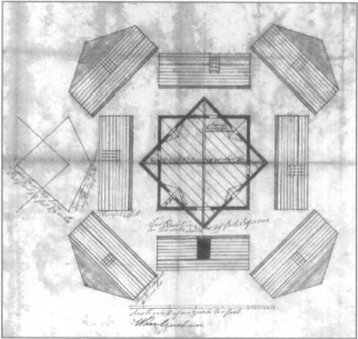 Design of the town of York blockhouses, 1799. Original caption: “The 28-sq. ft Town of York Blockhouse built in 1798 had its second floor turned on the diagonal to improve the field of fire, as illustrated in this 1799 schematic. (Courtesy National Archives of Canada, NMC-5427)” This image is available from Library and Archives Canada under the reproduction reference number NMC-5427 This tag does not indicate the copyright status of the attached work. A normal copyright tag is still required. See Commons:Licensing for more information. Library and Archives Canada does not allow free use of its copyrighted works. See Category:Images from Library and Archives Canada.